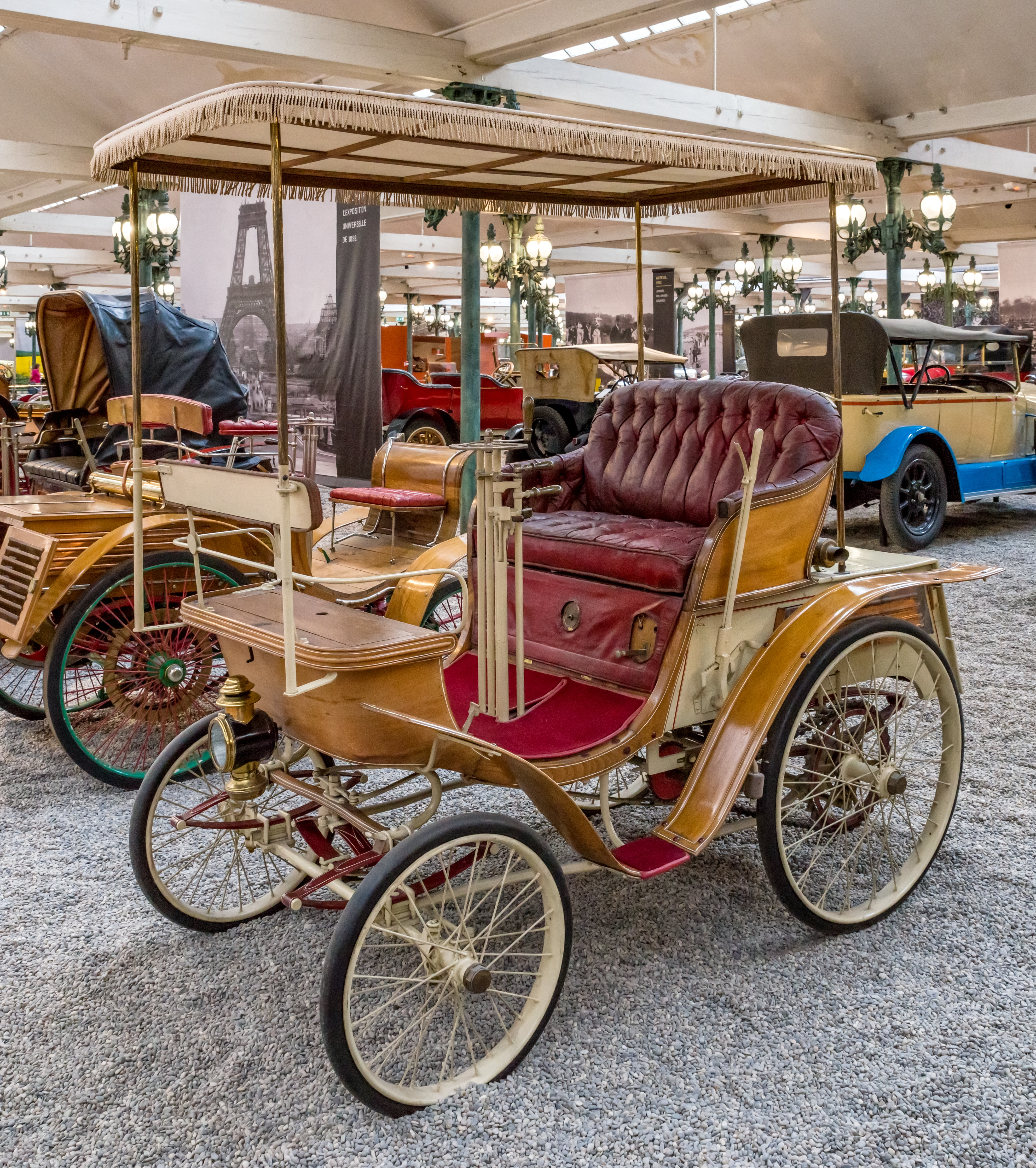 pictures from the Cité de l’Automobile – Musée National – Collection Schlump in Mulhouse, France ptictures from the 10. may 2018